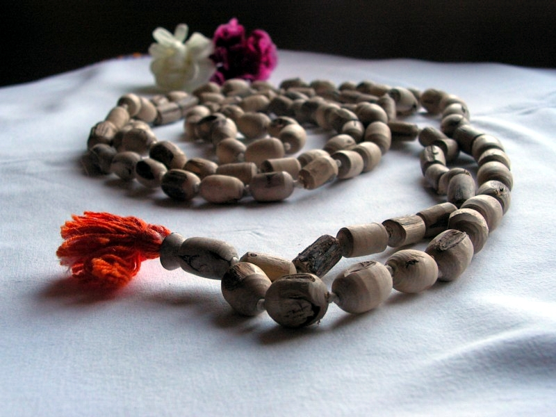 A Japa mala, or set of prayer beads, made from Tulasi wood. There are a total of 108 beads, including the head bead.